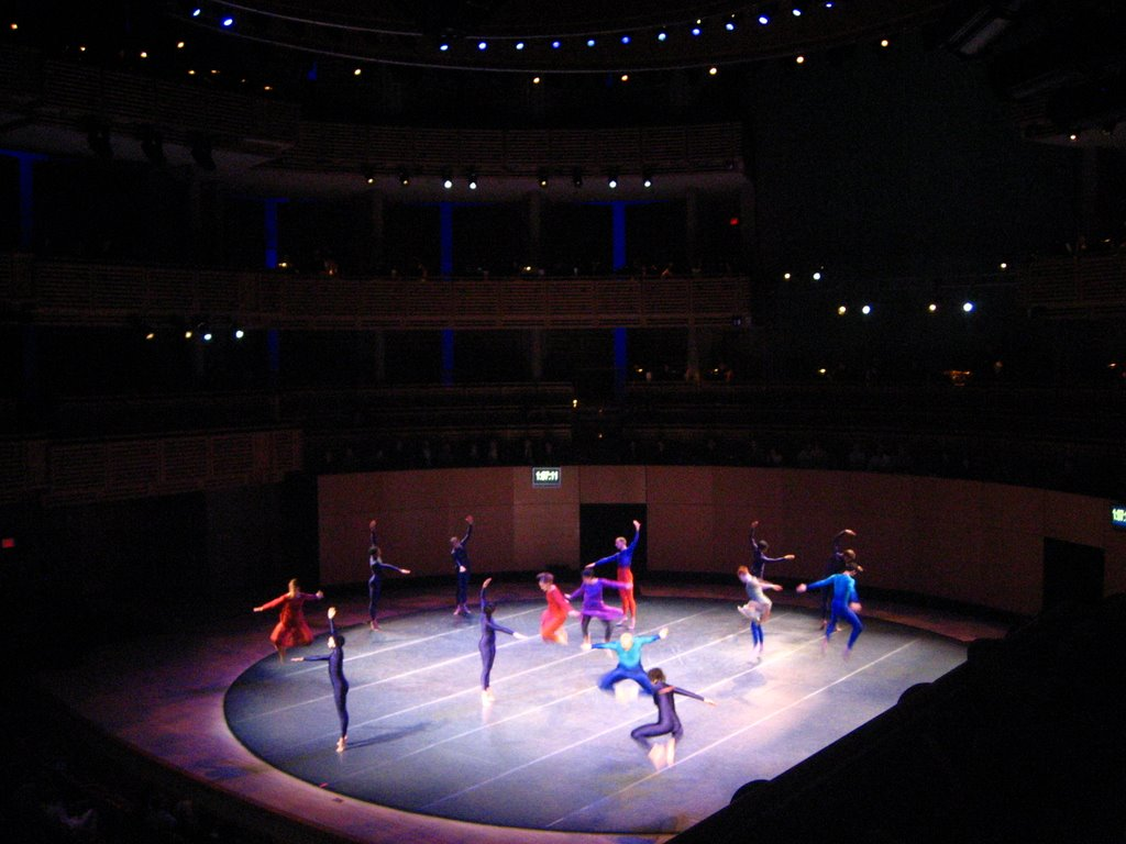 At Carnival Center, March 2007